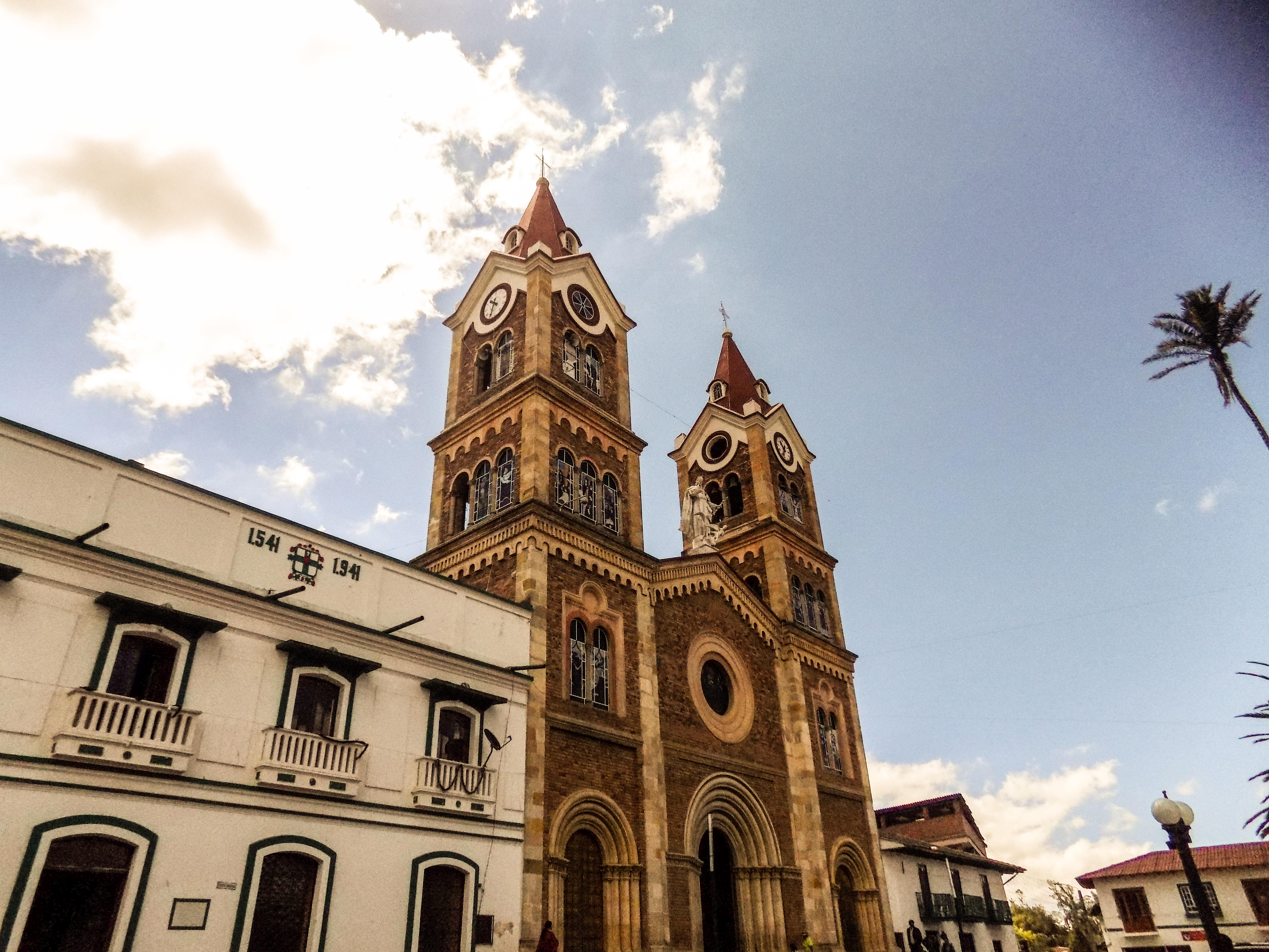 Iglesia de Ramiriquí